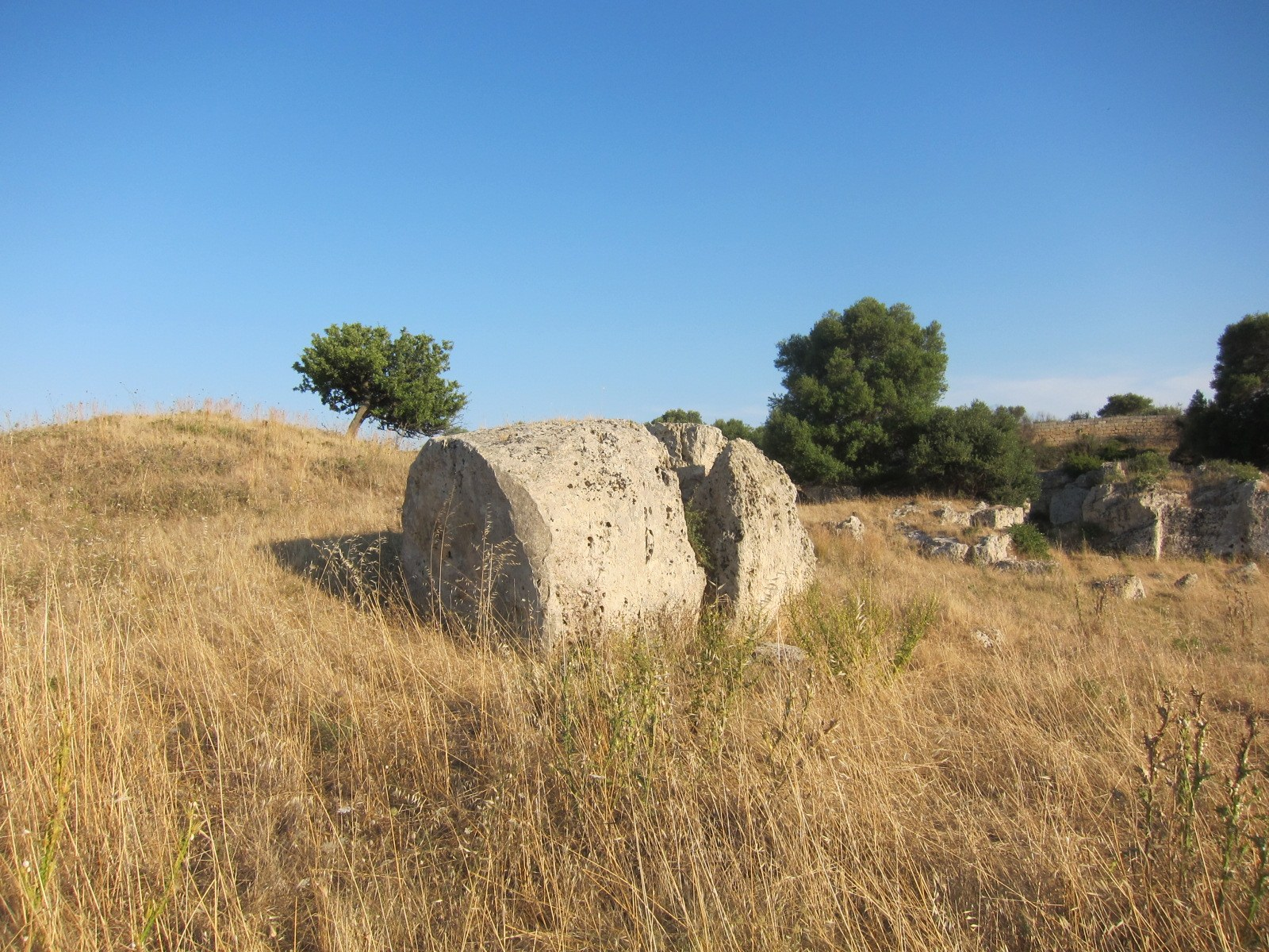 Drum for a column in « Cave di Cusa », a stone quarry and official Sicilian Archeological Zone, located south of the Sicilian town Campobello di Mazara, Italy.